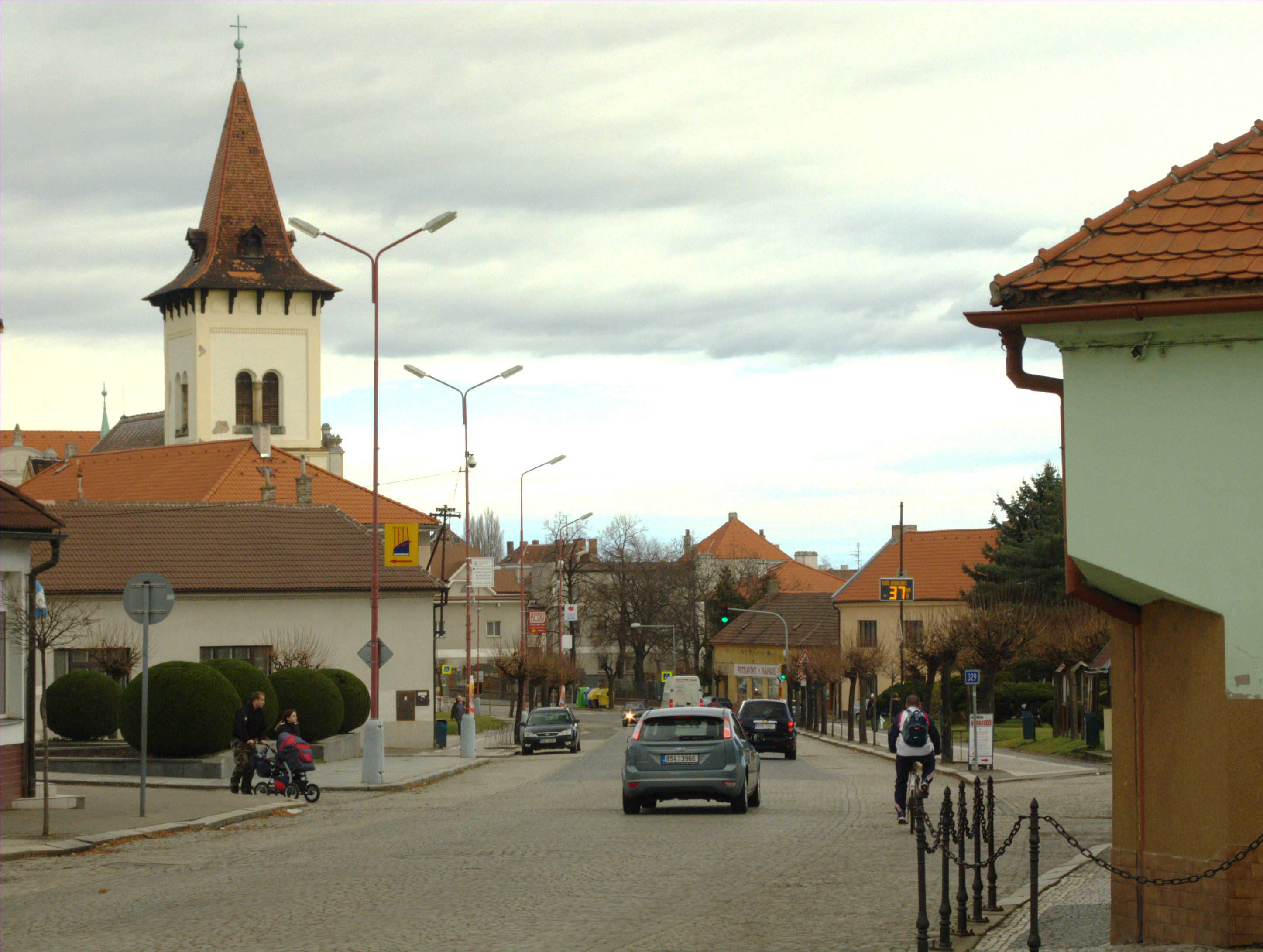 Main road in Pečky, Central Bohemian Region, CZ